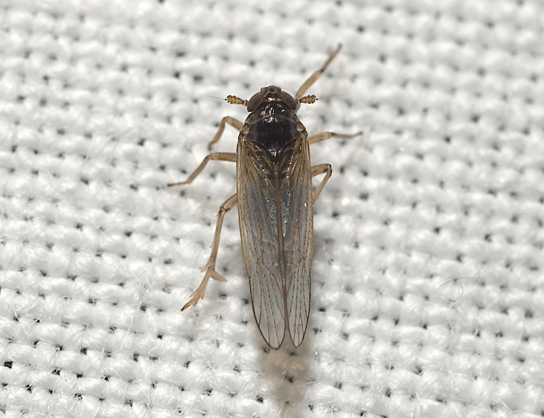 Please report references to kulacgmx.at.